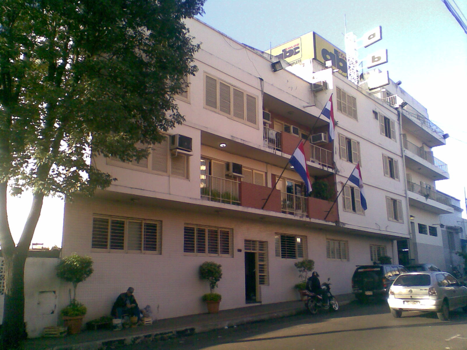 ABC Color